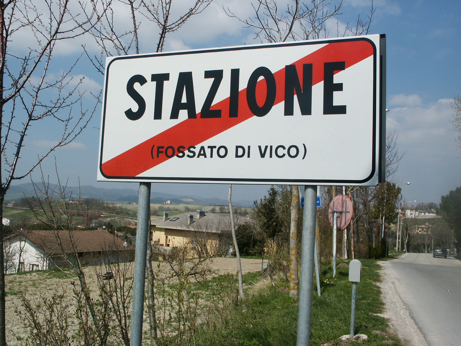 Train Station at Fossato di Vico, Umbria, Italy